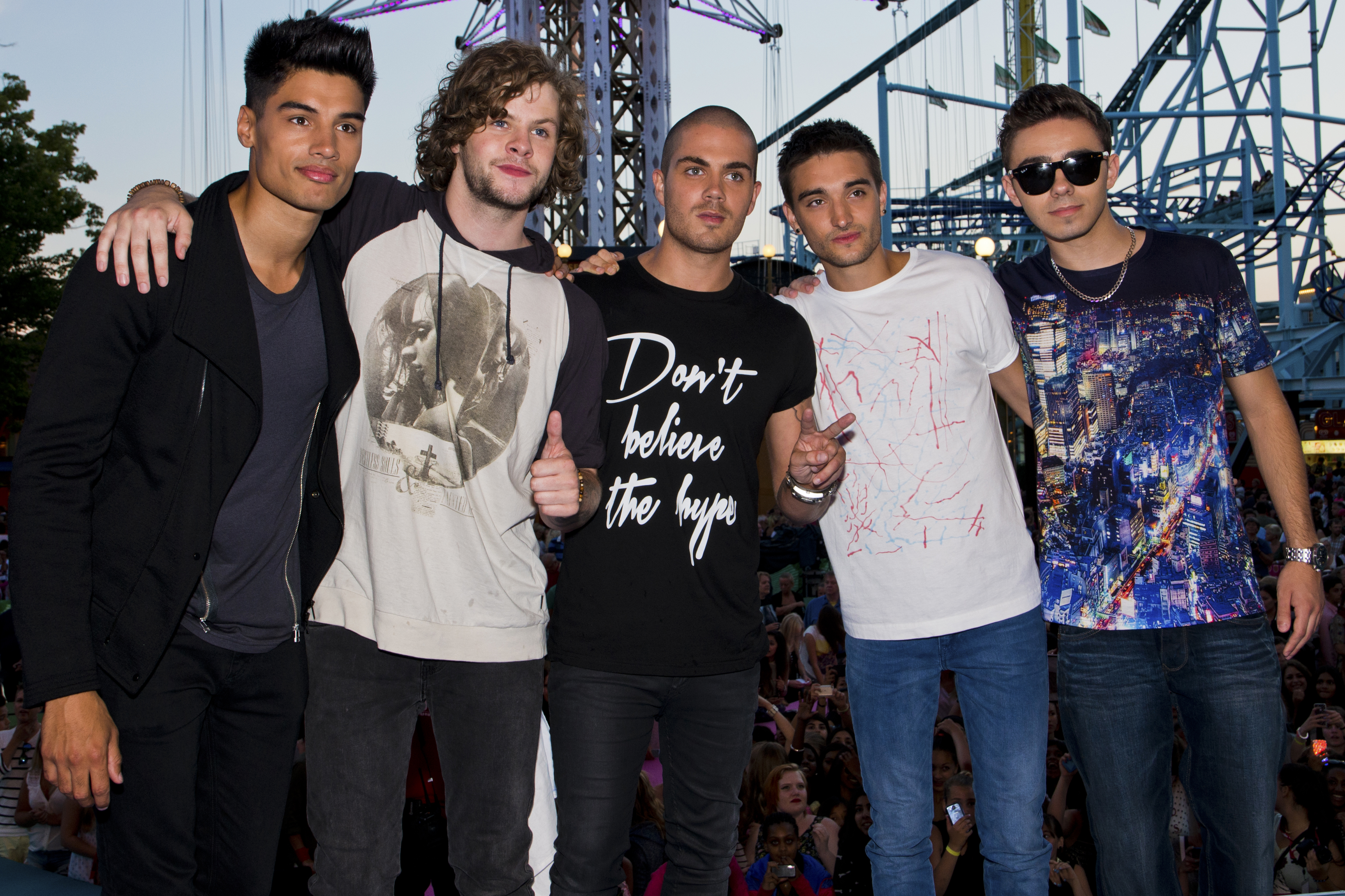 The Wanted visting the show Sommarkrysset 2013 at Gröna Lund, Stockholm